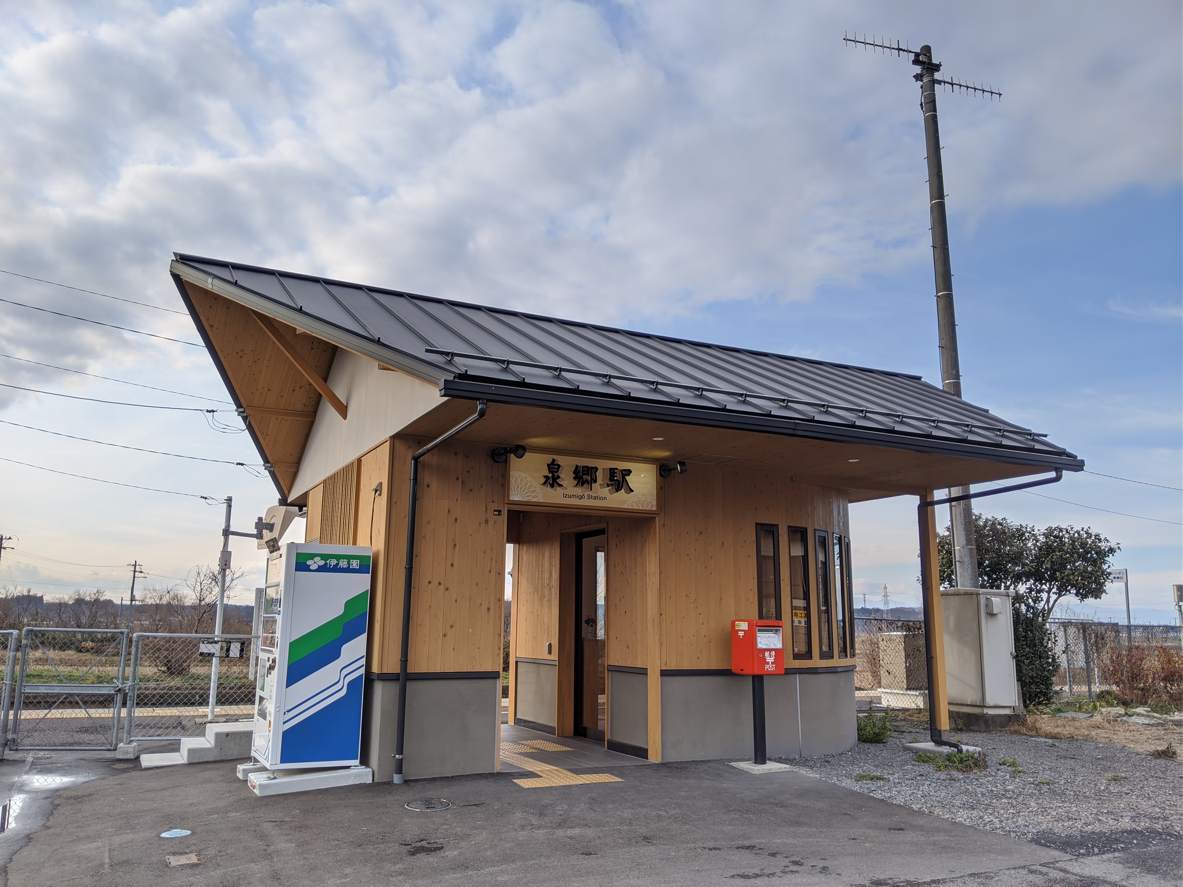 JR Suigun line Izumigo Station.